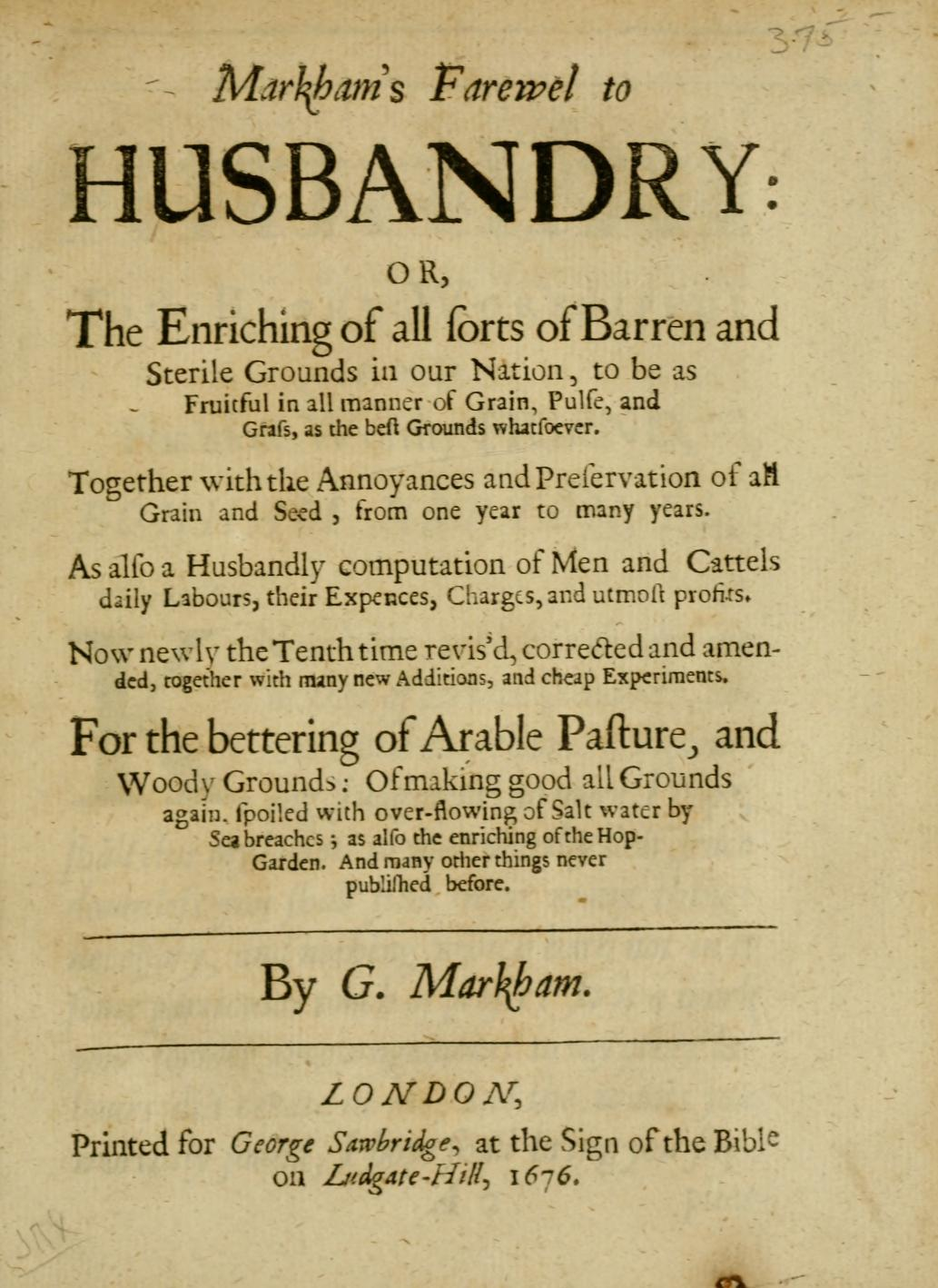 Title page of 1676 edition of Gervase Markham's "Farewell to Husbandry"